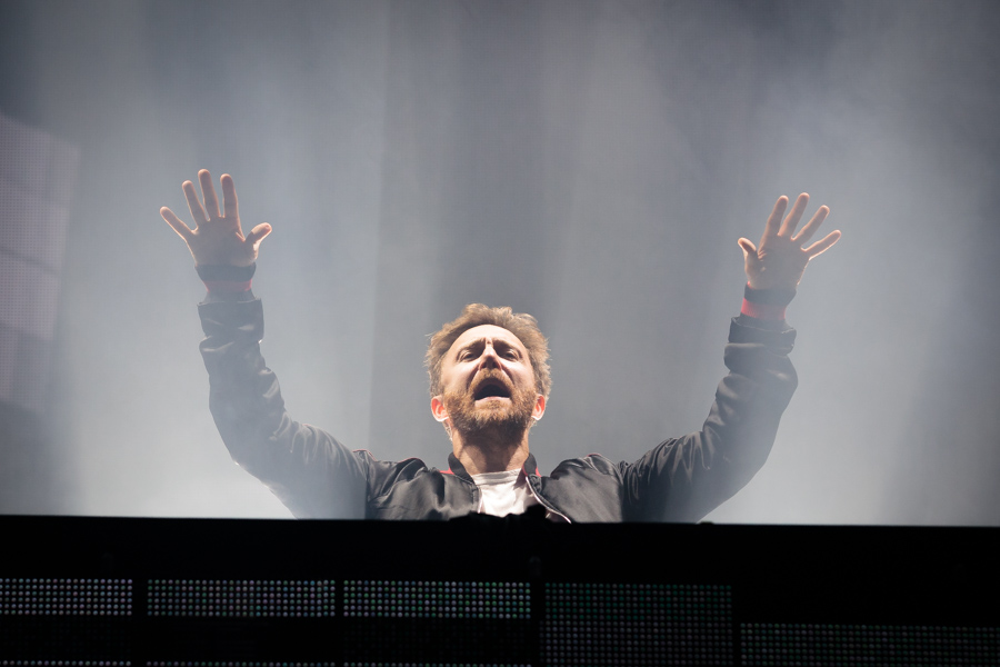 David Guetta at the main stage at Stavernfestivalen. The concert was part of Stavernfestivalen and took place on 13. July 2018 in Stavern. Lineup:David Guetta (disc jockey)